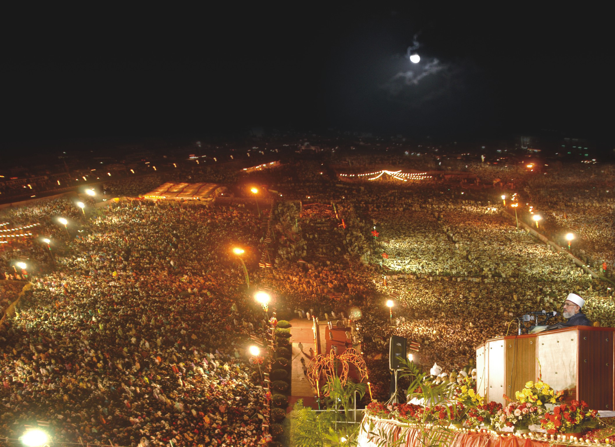 Licensing Policy about Wikipedia This is to clarify that all contents and images of this website can be used with reference of this website on Wikipedia under the free license: Creative Commons Attribution-Share Alike 4.0 International.